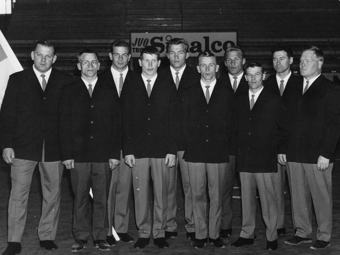 Finnish wrestling team at the 1965 World Championships, including Arje Nadbornik, Eero Tapio (2nd from left), Veikko Koivuniemi, Martti Laakso, Kaarlo Wieser, Raimo Taskinen, Kemin Into, Arto Savolainen, Reino Salimäki and coaches Veijo Vasko and Kalervo Rauhala